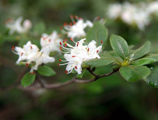 Rhododendron tschonoskii (var. tschonoskii) (Shikaoi-town, Hokkaido, Japan)